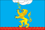 Flag of Tuchkovo, Moscow oblast, Russia